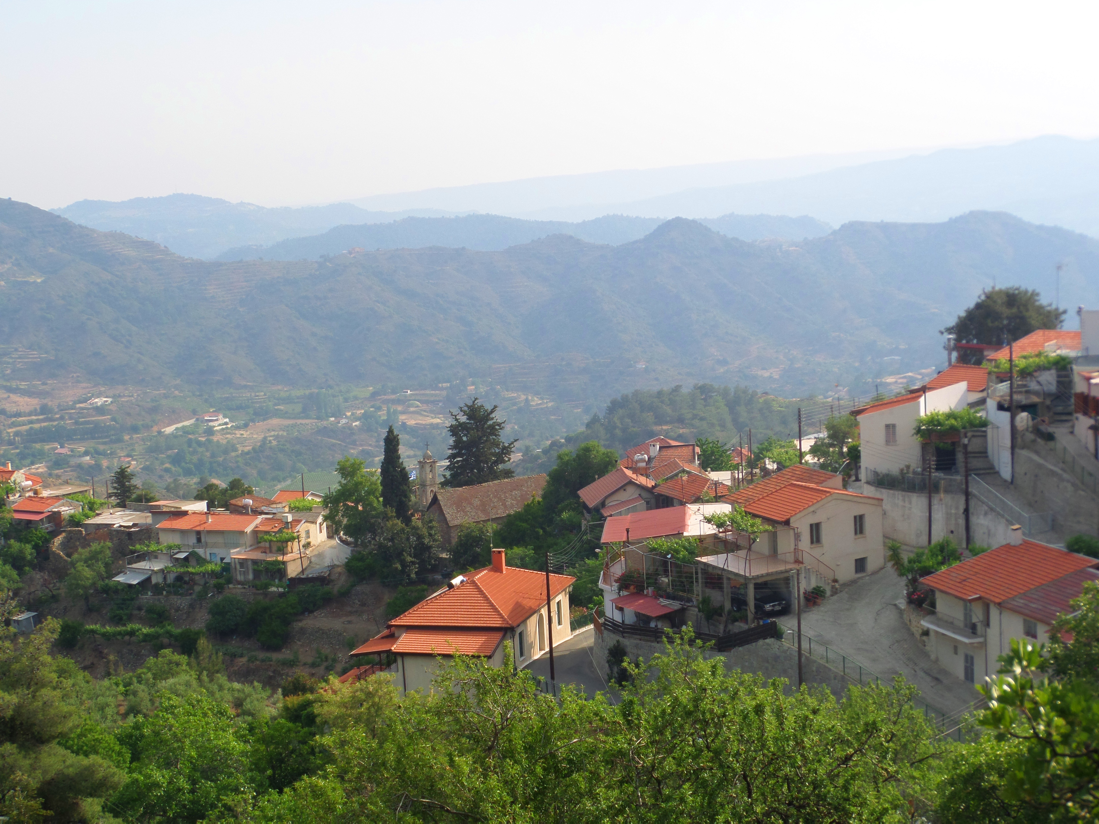 View of Zoopigi.